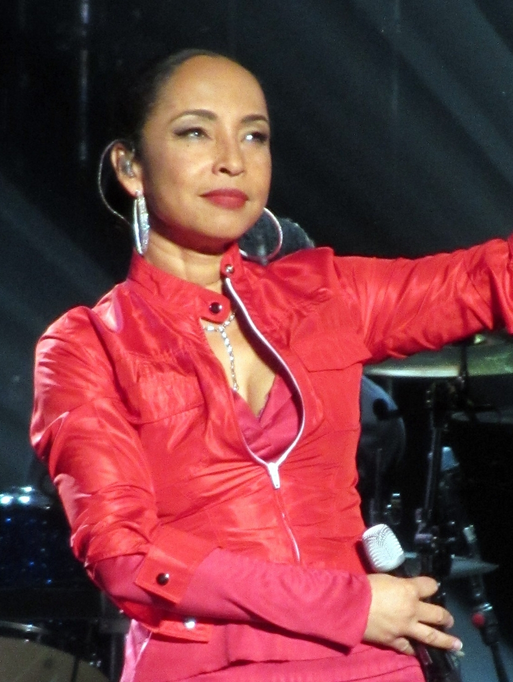 Sade Adu at SAP-Arena Mannheim, Germany 2011-11-16.